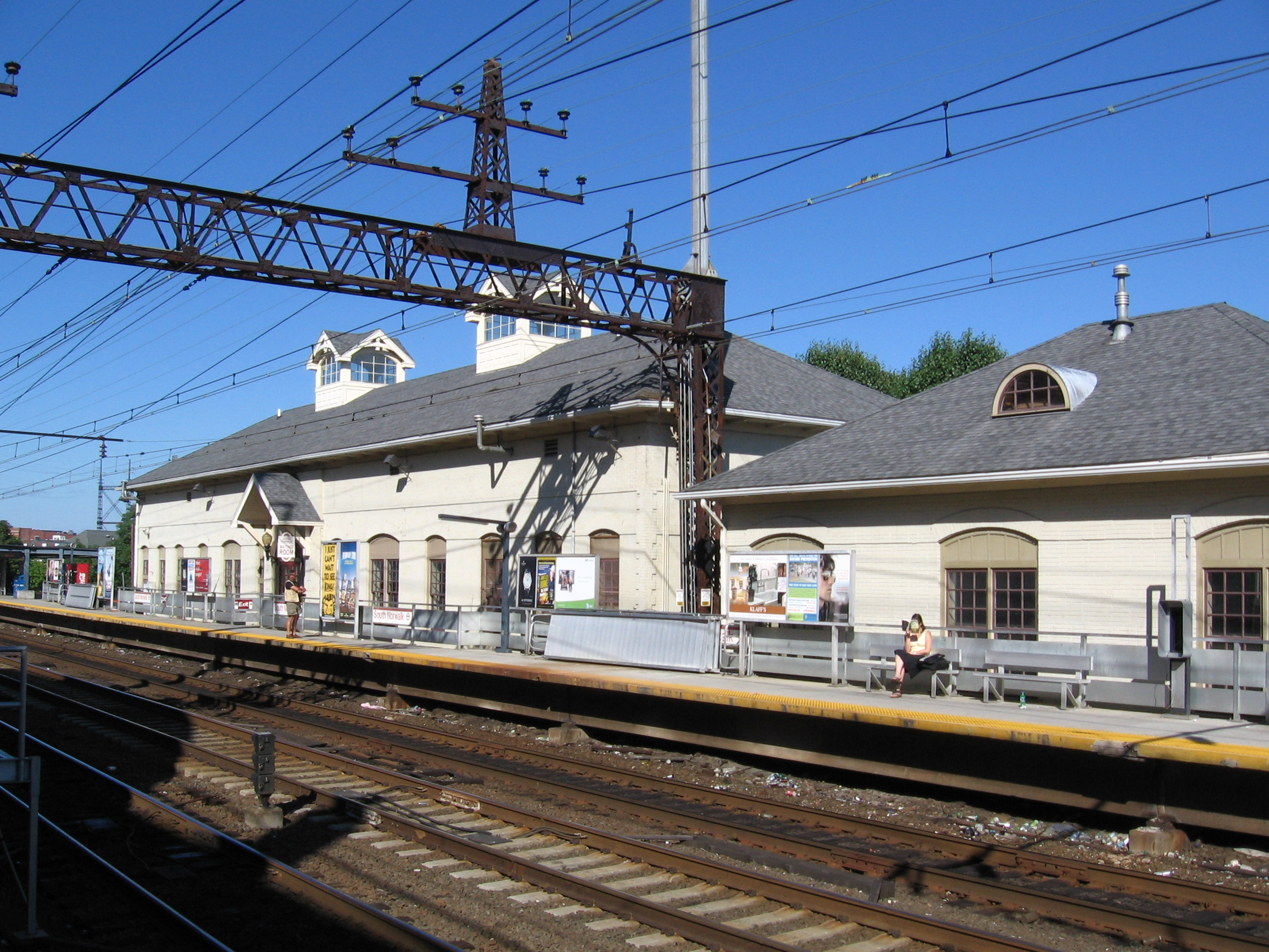 View from across the tracks at the older building at the South Norwalk railroad station in the South Norwalk section of Norwalk.